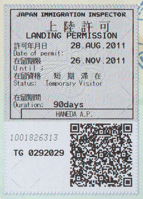 Landing Permission of Japan for 90 Days. Issued on August 2011 at Tokyo Haneda International Airport.